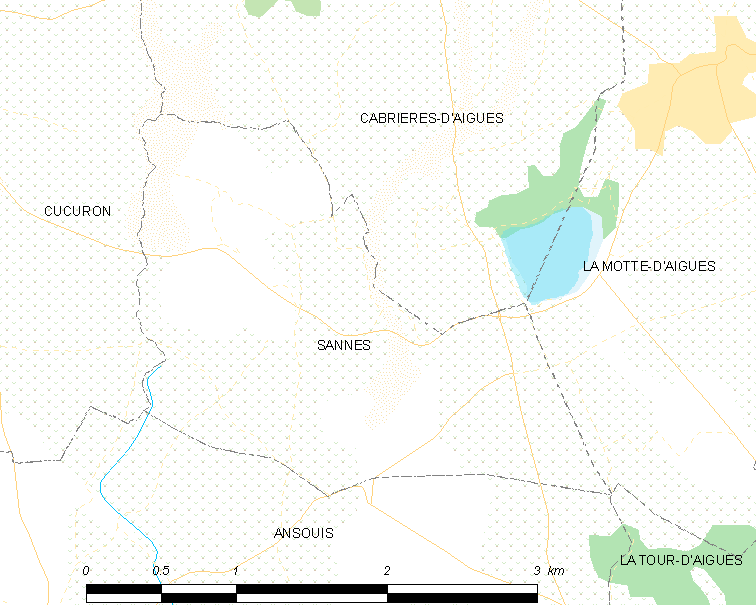 Map of French municipality Sannes